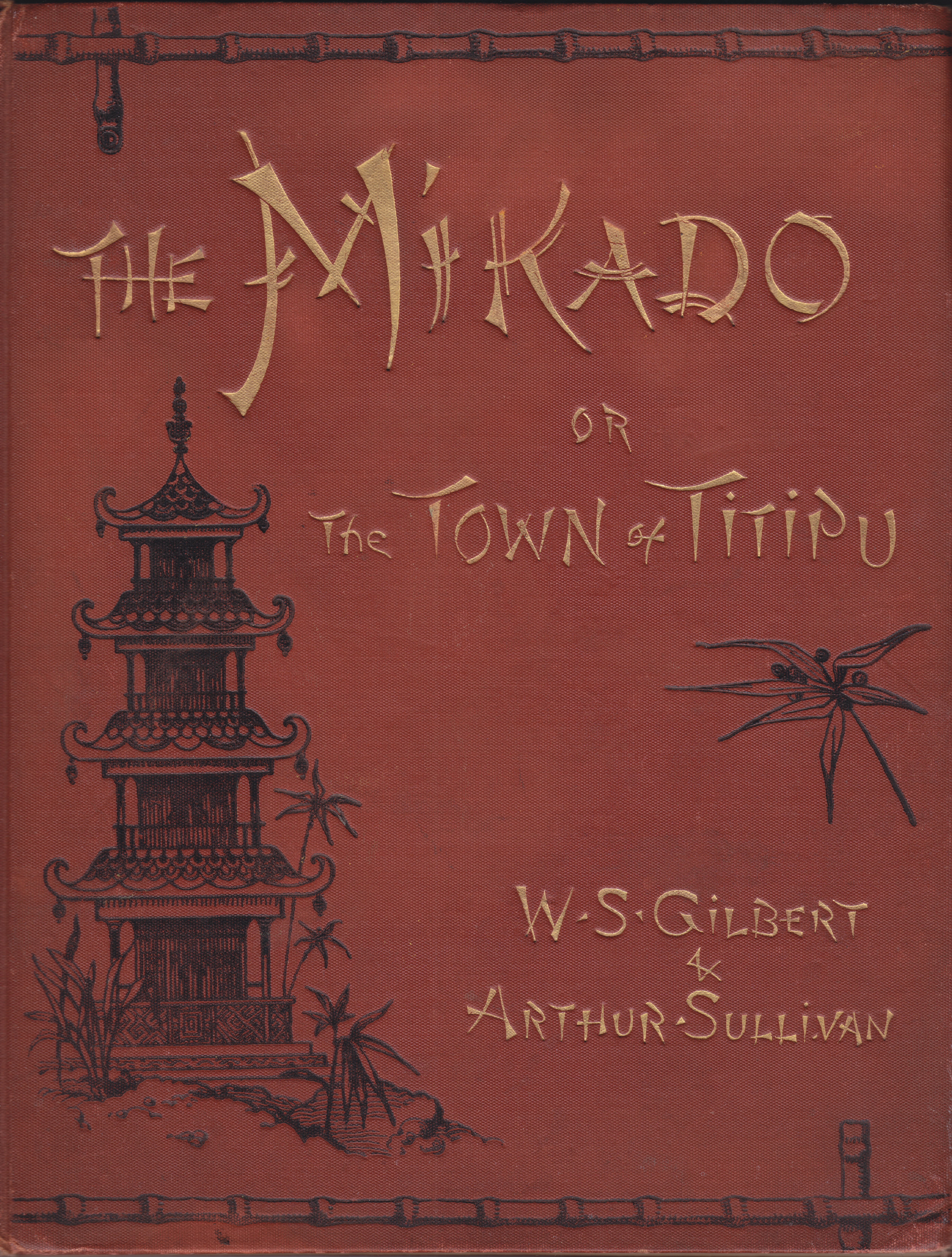 Cover of an 1895 Chappell & Co. vocal score for Gilbert and Sullivan's The Mikado, arranged for pianoforte by George Lowell Tracy. The score is undated, but gives the cast for the 6th November 1895 performance of the Mikado - the Second London Revival, and does not include the note - found universally after 1911 in G&S scores - claiming its rights under the 1911 copyright act. As it emphasises the revival, a date nearer 1895 seems most likely. Some very mild cleanup was done, mainly to remove a few cat hairs and other dust spots that had got on the scanner bed. Also, although some of the image elements are slightly tilted, they are tilted relative to the edges of the cover, and fixing this would require a much tighter crop for that reason. This did not seem worth it.